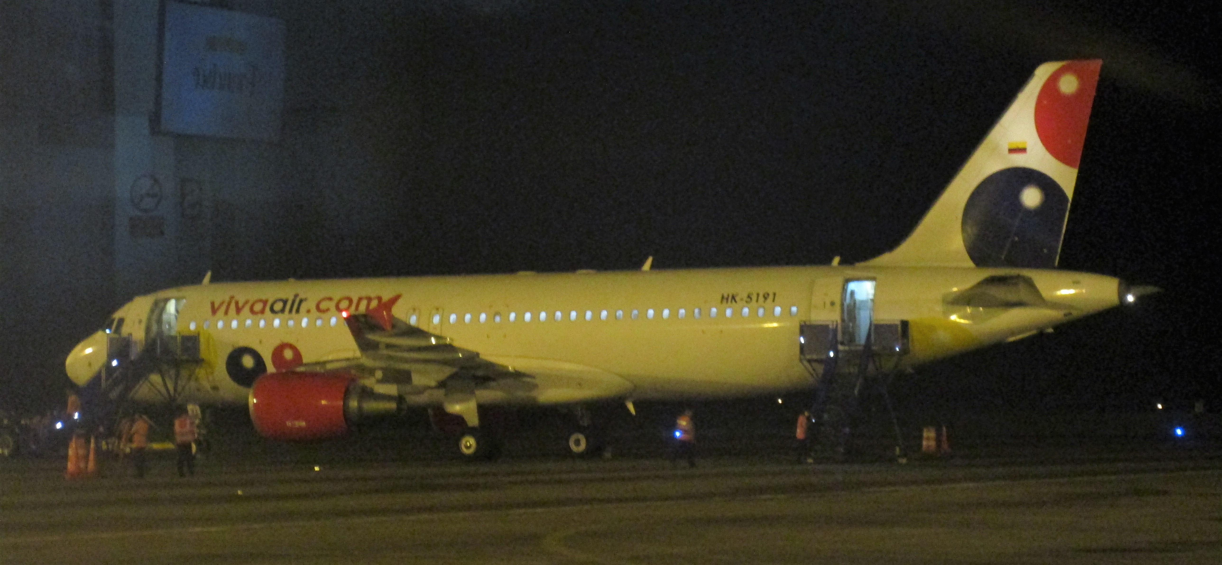 Airbus A320 de Viva Air Peru en el Aeropuerto Internacional Coronel FAP Francisco Secada Vignetta de Iquitos